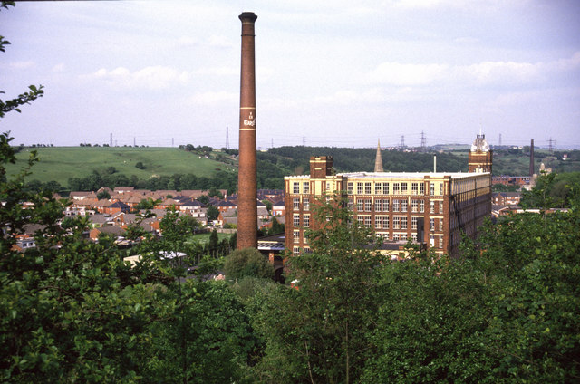 Kearsley Mill, Prestolee A very fine mill listed II*. The chimney is quite exceptional.